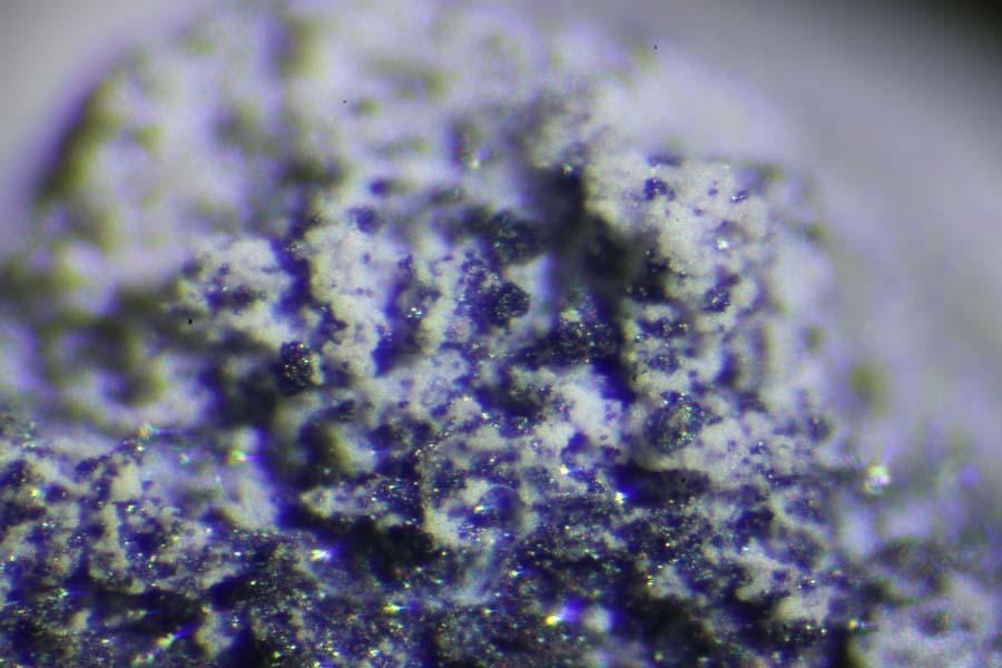 Cadmoindite, from Kudriavy Volcano, Iturup Island, Sakhalinskaya Obl, Far Eastern Region, Russian Federation